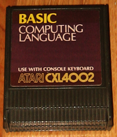 Cartridge with BASIC computing language for Atari 8 bit computers. Model CXL4002. Photo by the uploader.